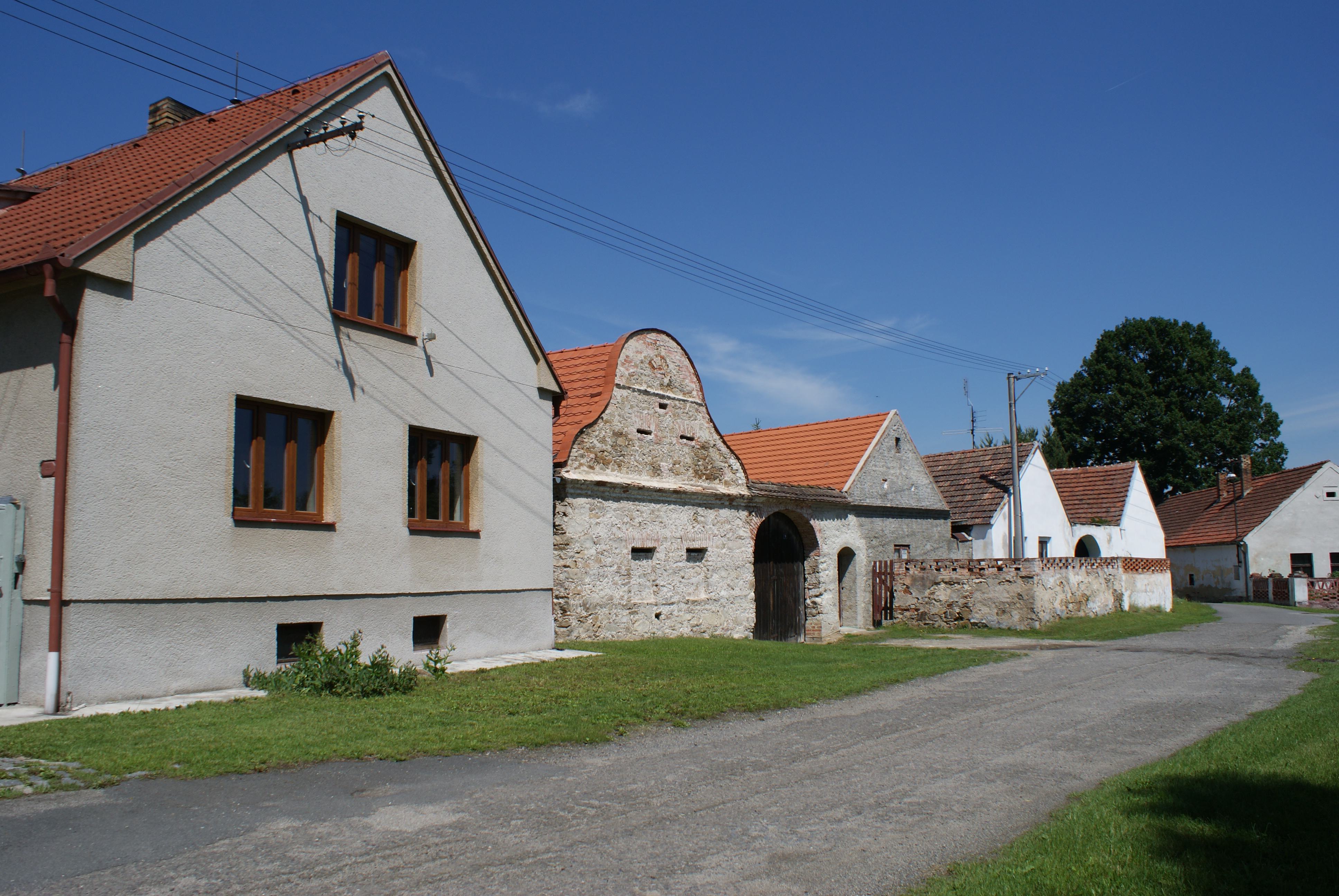 Čejetice, a village in Strakonice district, Czech Republic, a houses on the village common.